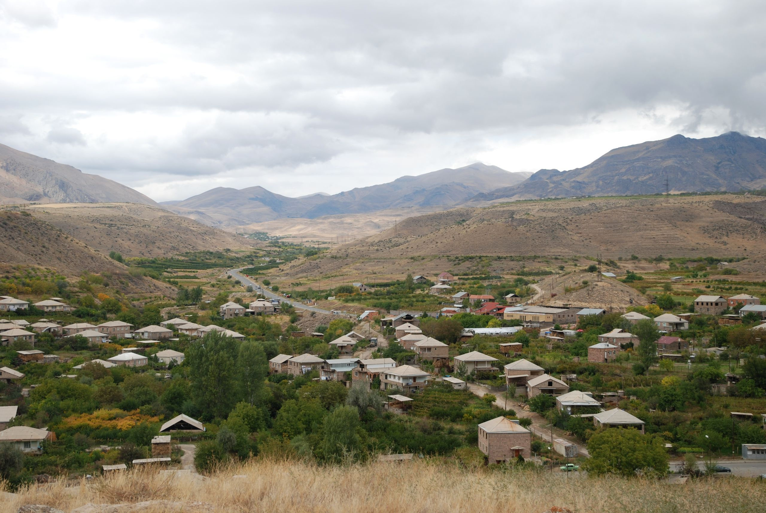 Areni village towards north